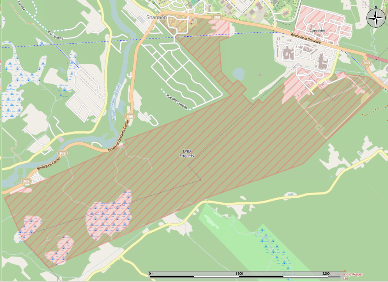 Open Street Map showing the base and the extensive training grounds of CFB Valcartier.